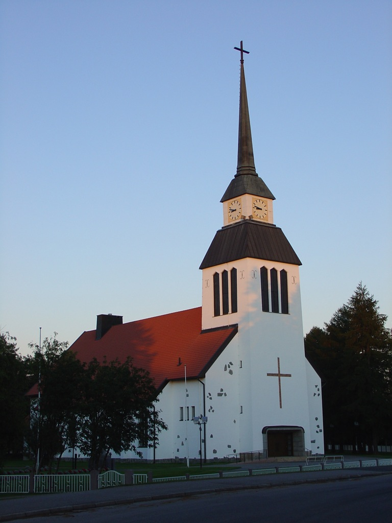 Holy Cross Church in Kuusamo, Finland